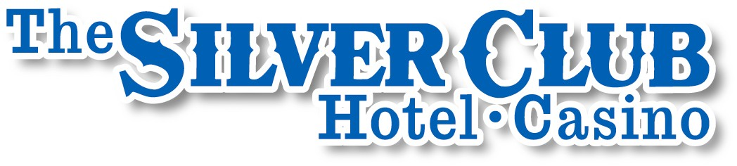 Logo of the Silver Club, which is now Bourbon Square Casino